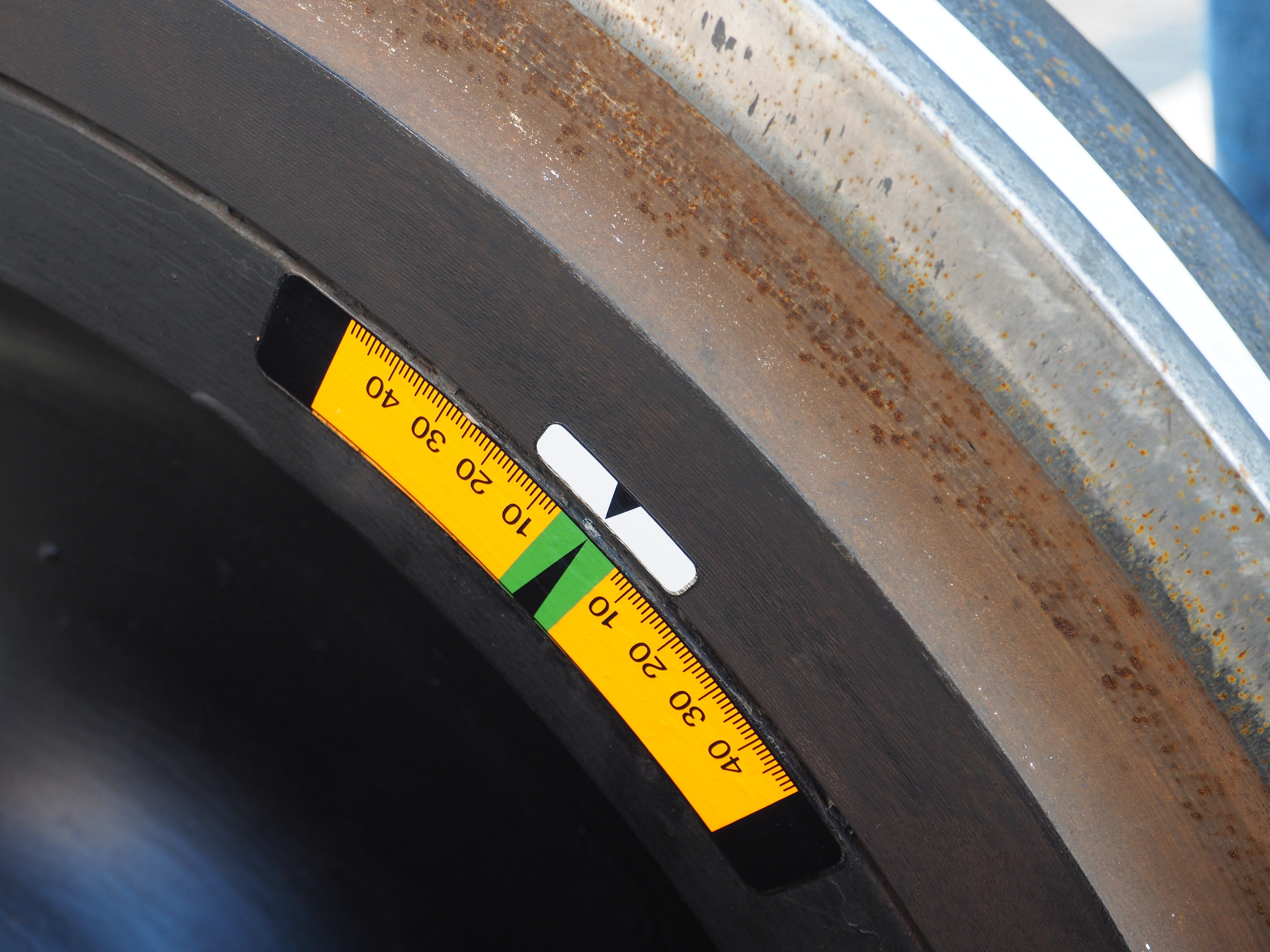 U4 class: Railway tire with marking to monitor undesired shifting (exhibition in Heddernheim depot)